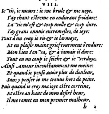 Poem "Je vis, je meurs..." from Louise Labé's works, sonnet number VIII.